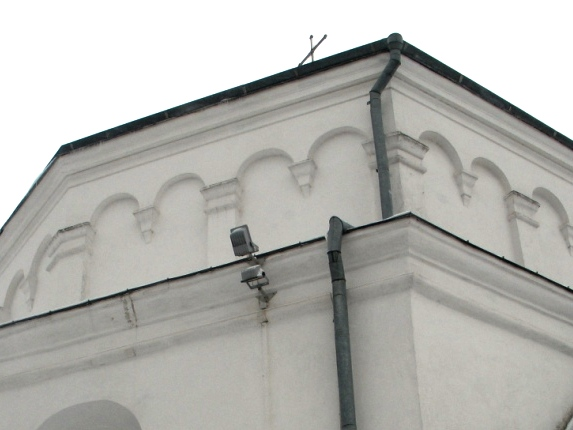 Catholic church of St. Michael (Smarhon)